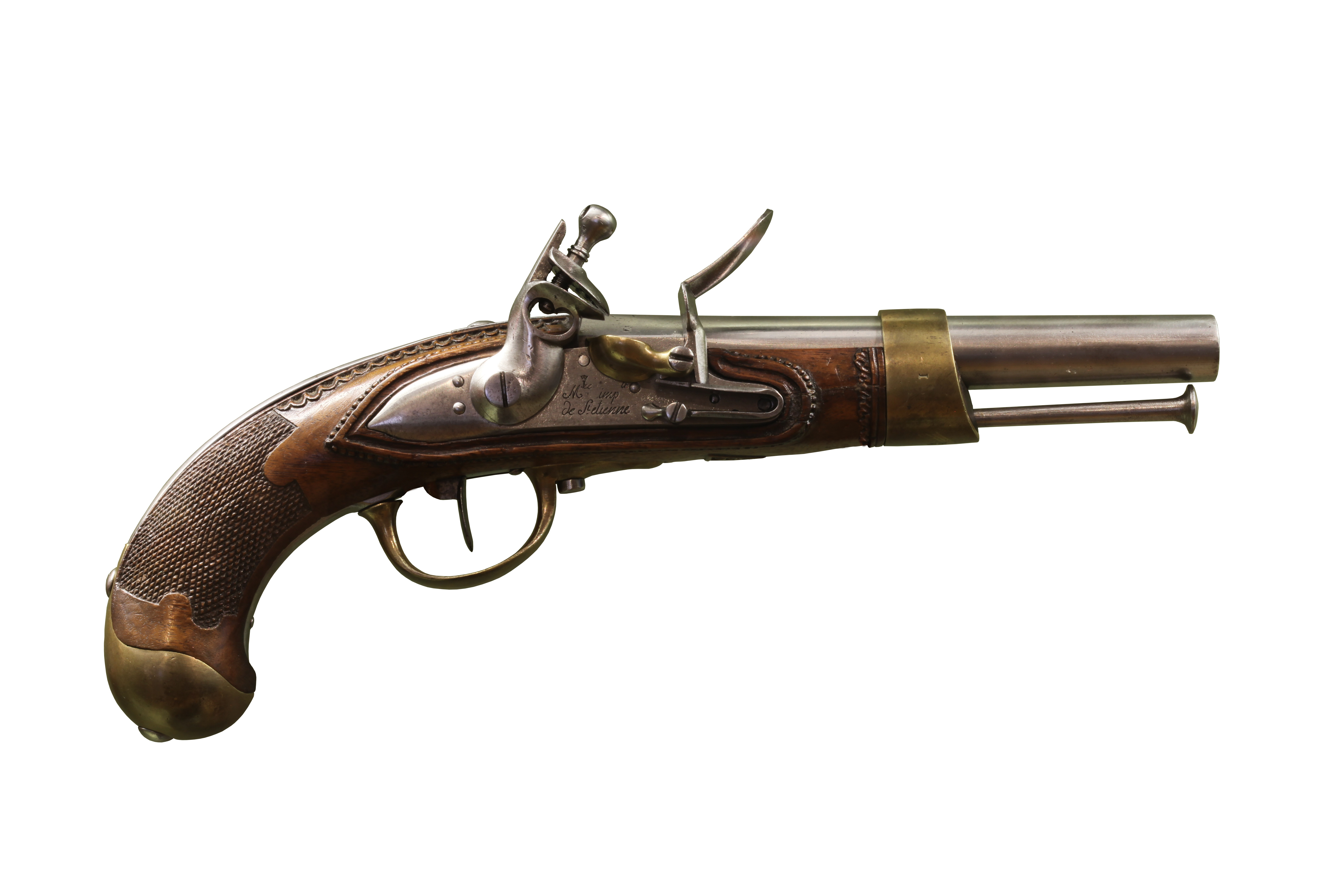 French cavalry pistol, model An XIII, France, circa 1804-1815. Made by M.(anufacture) Imp.(éria)le de Saint-Etienne. On display at Morges military museum, access number MMV 1003511.